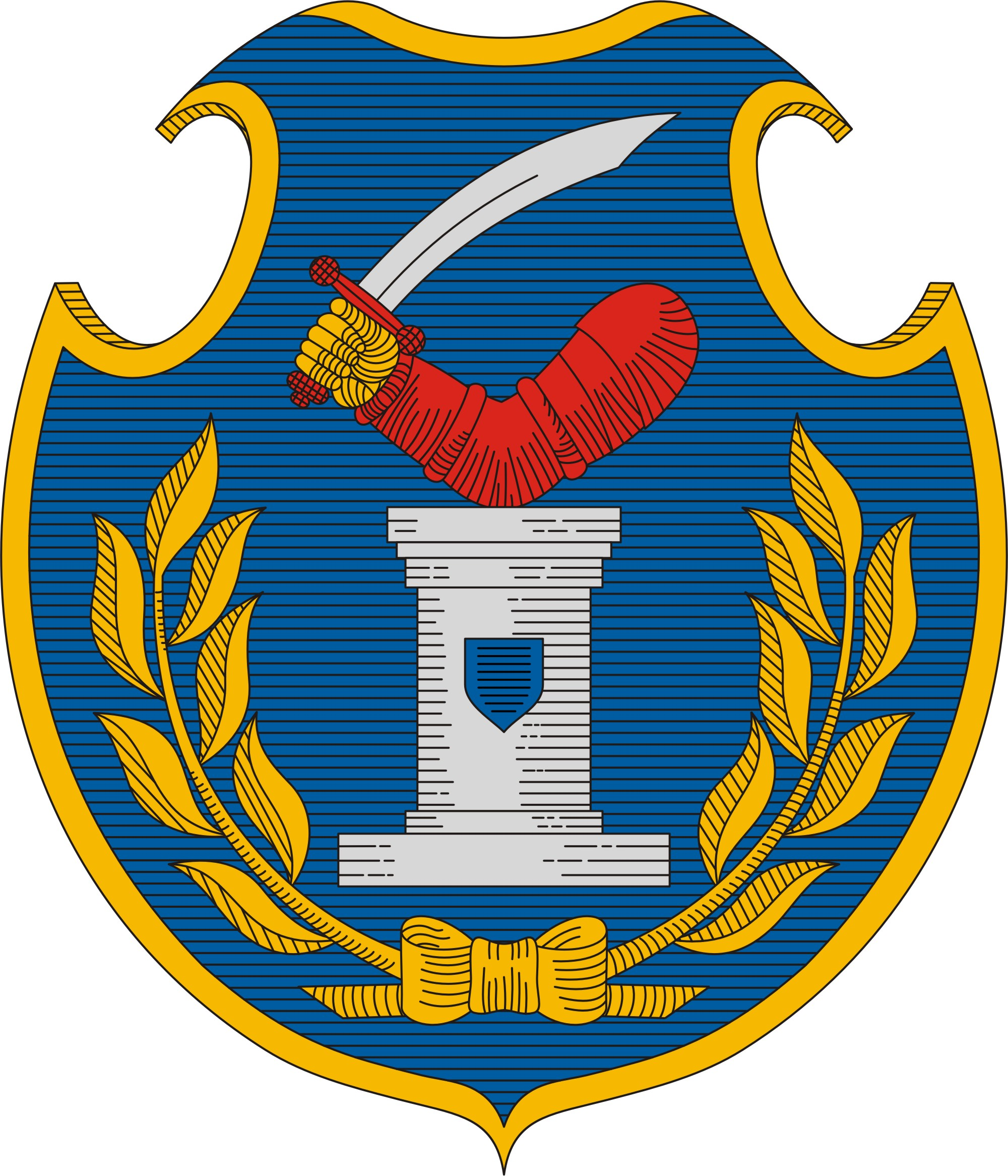 Coat of arms of Egyházashetye, Hungary